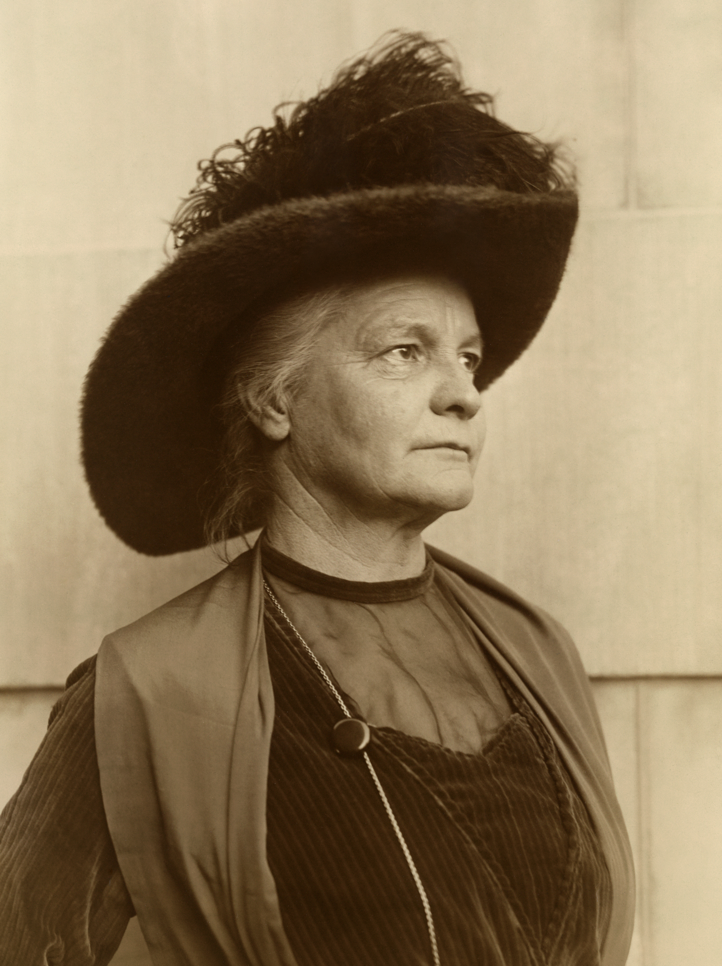 Elizabeth Glendower Evans (1856–1937), social reformer and suffragist. A cropped version of this photograph was published in The Suffragist, 2, no. 9 (Feb. 28, 1914): 5. A penciled annotation on the verso of the photograph gives the date March 3, 1914, and the printing instruction "1 col." A stamp on the verso of the print reads "Washington Times Library Feb 10, 1914." From the Records of the National Woman's Party